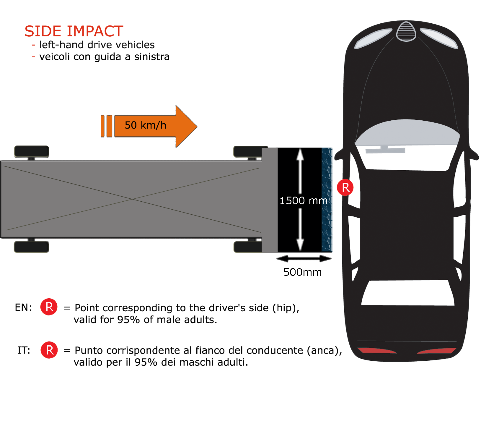 Crash Test EuroNCAP: Side Impact (left-hand drive veicles version)